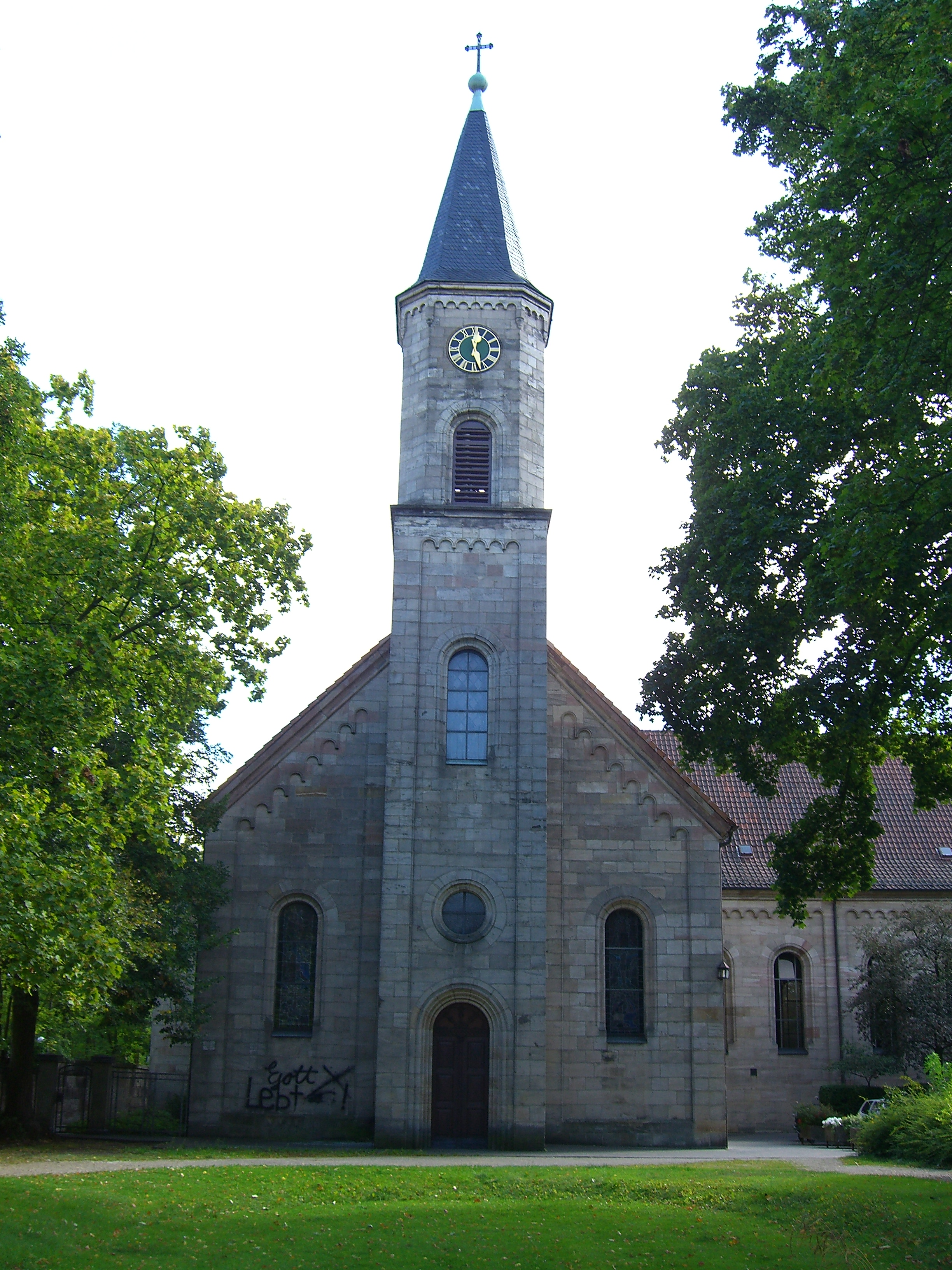 Front view of the Herz Jesu Kirche (Heart of Jesus Church), the first catholic church in Erlangen, Germany after the reformation.